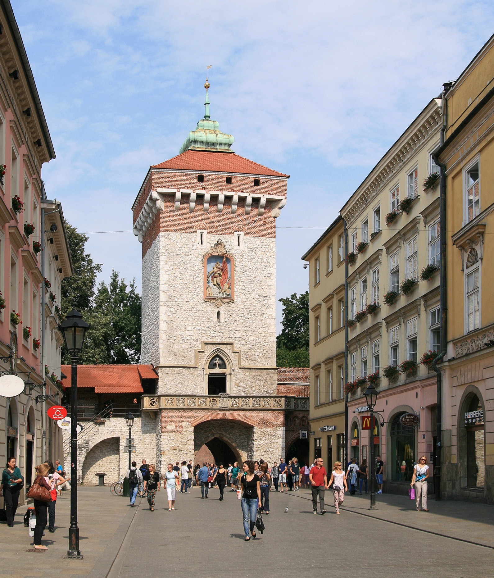 Florian Gate in Krakow